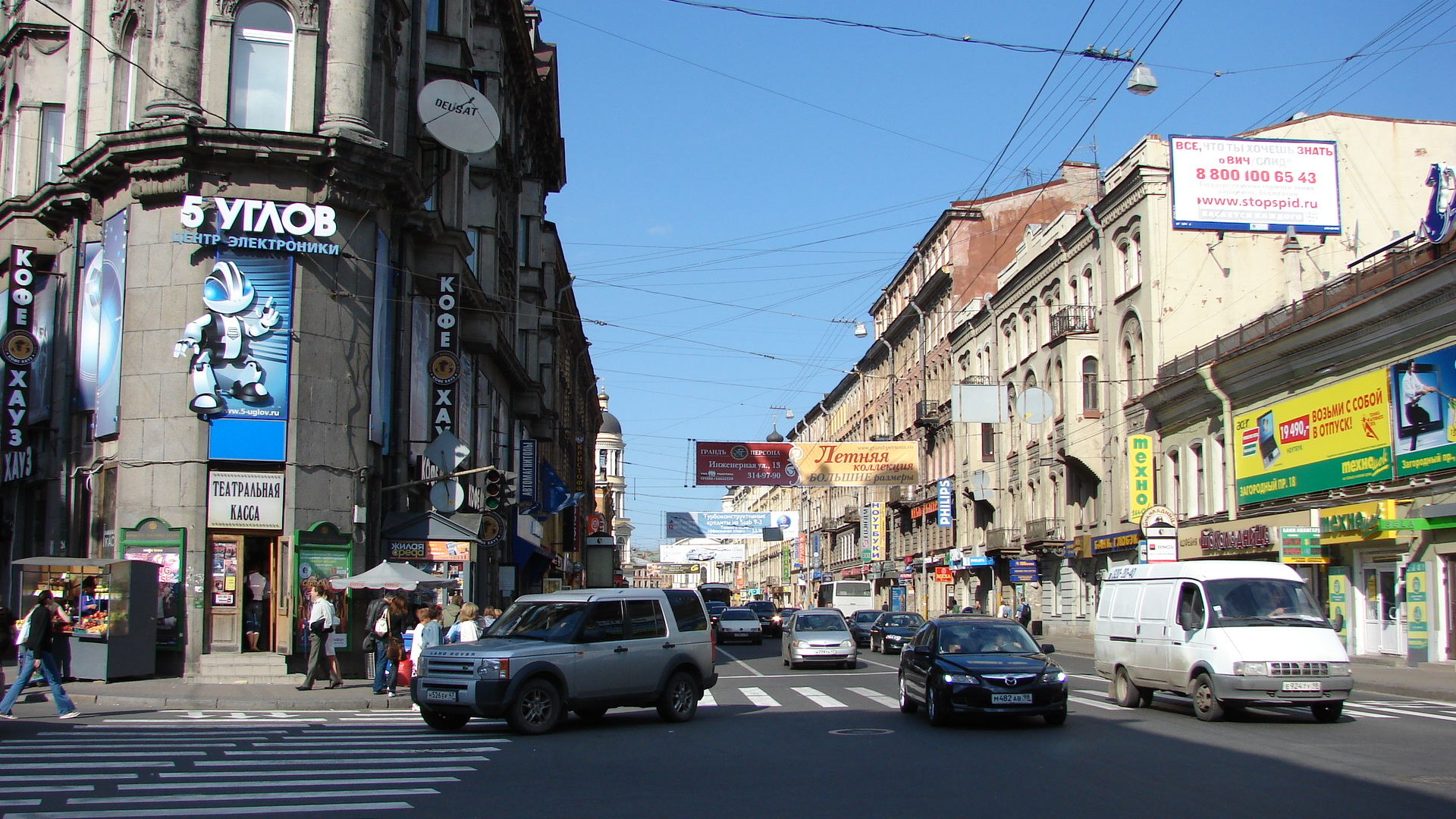 Zagorodny prospekt shot from "5 corner"